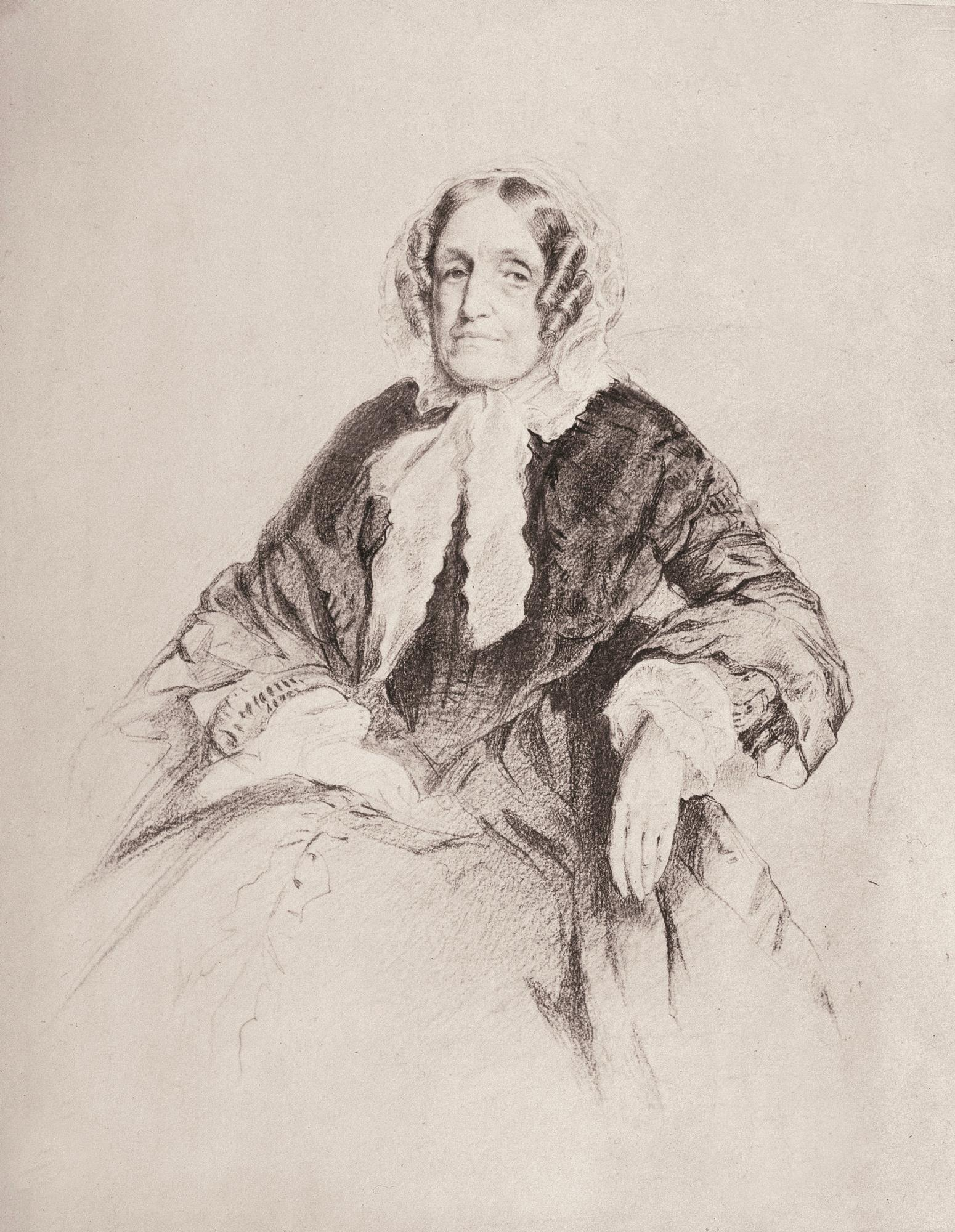 Scan of a picture of writer Jane Marcet (who died in 1858)